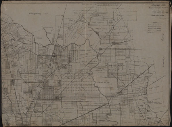 Map, Harris County, Texas (northeast), cadastral maps